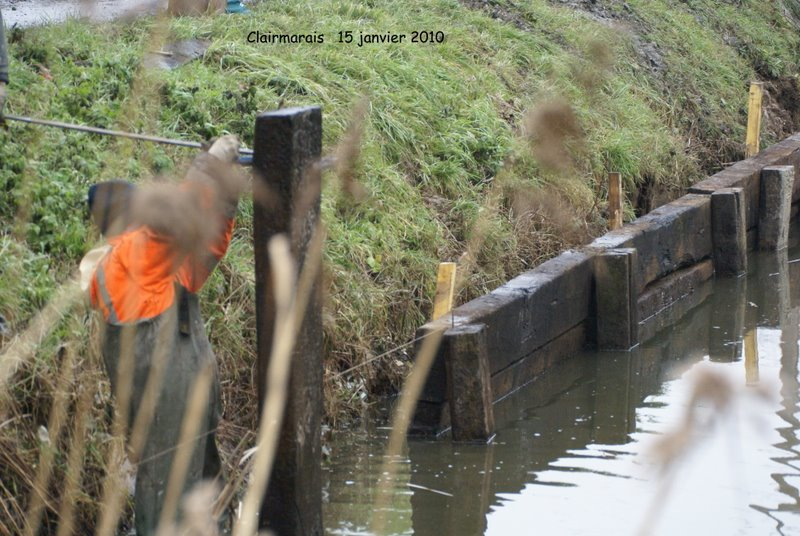 Example of restoration of shoreline of freshwater with former Railroad ties treated with creosote in late 2009-early 2010, in a wetland (Romelaëre wetland, path Boneghem, Clairmarais, near Saint-Omer, Department Pas-de-Calais, France). Creosote contains many pollutant molecules